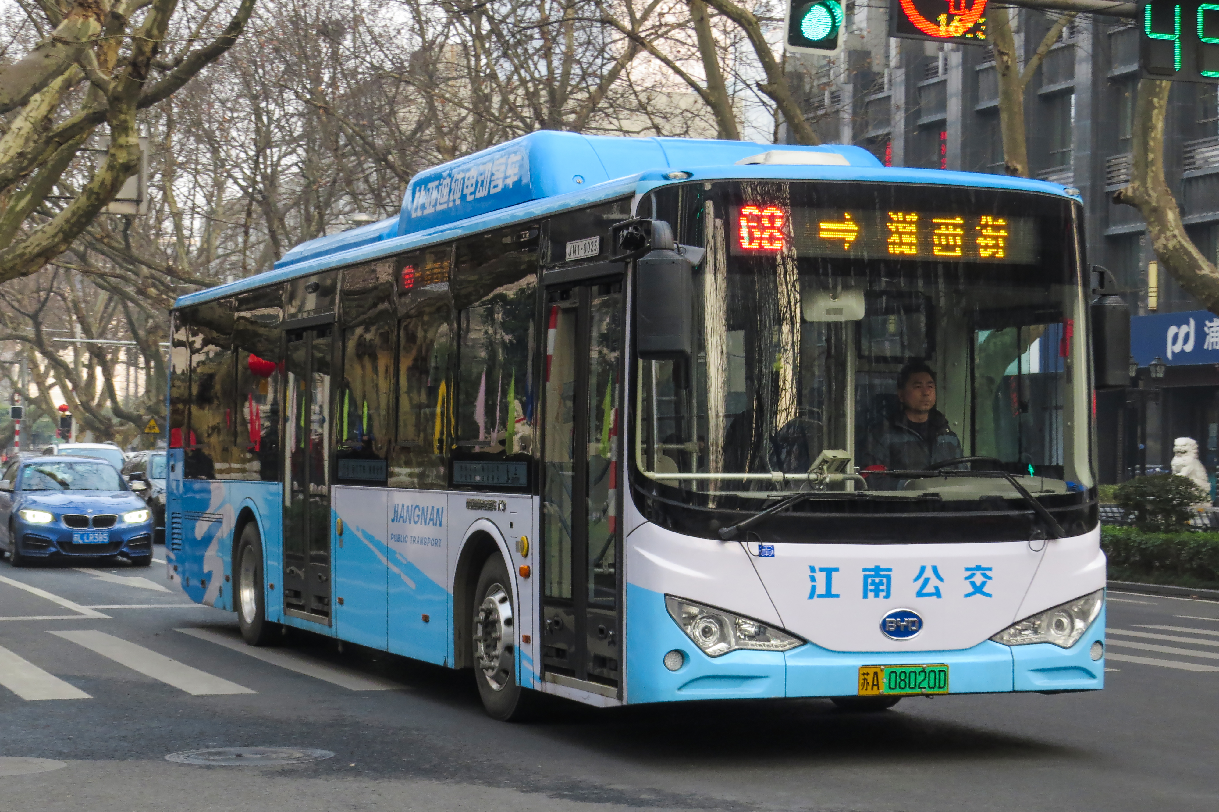 This BYD K9 uses a new registration plate, which is unveiled in December 2016.